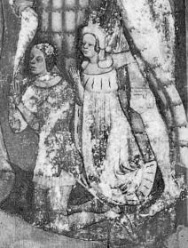 Albert III, Duke of Austria and